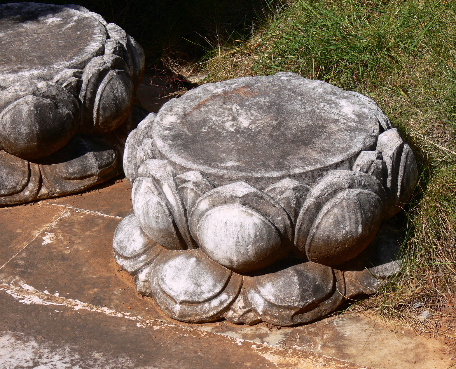 Relic of Ming dynasty column base